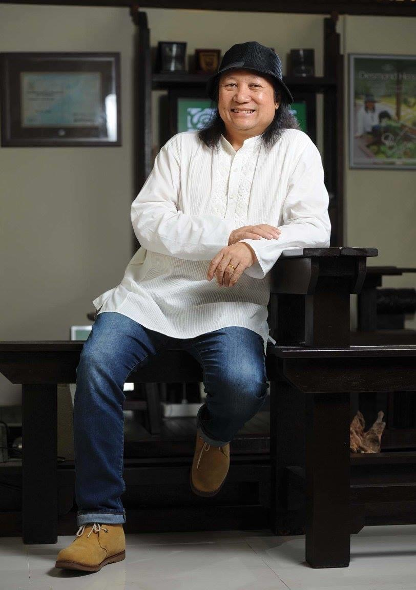 Picture of Desmond Ho, a landscape designer, taken in 2016